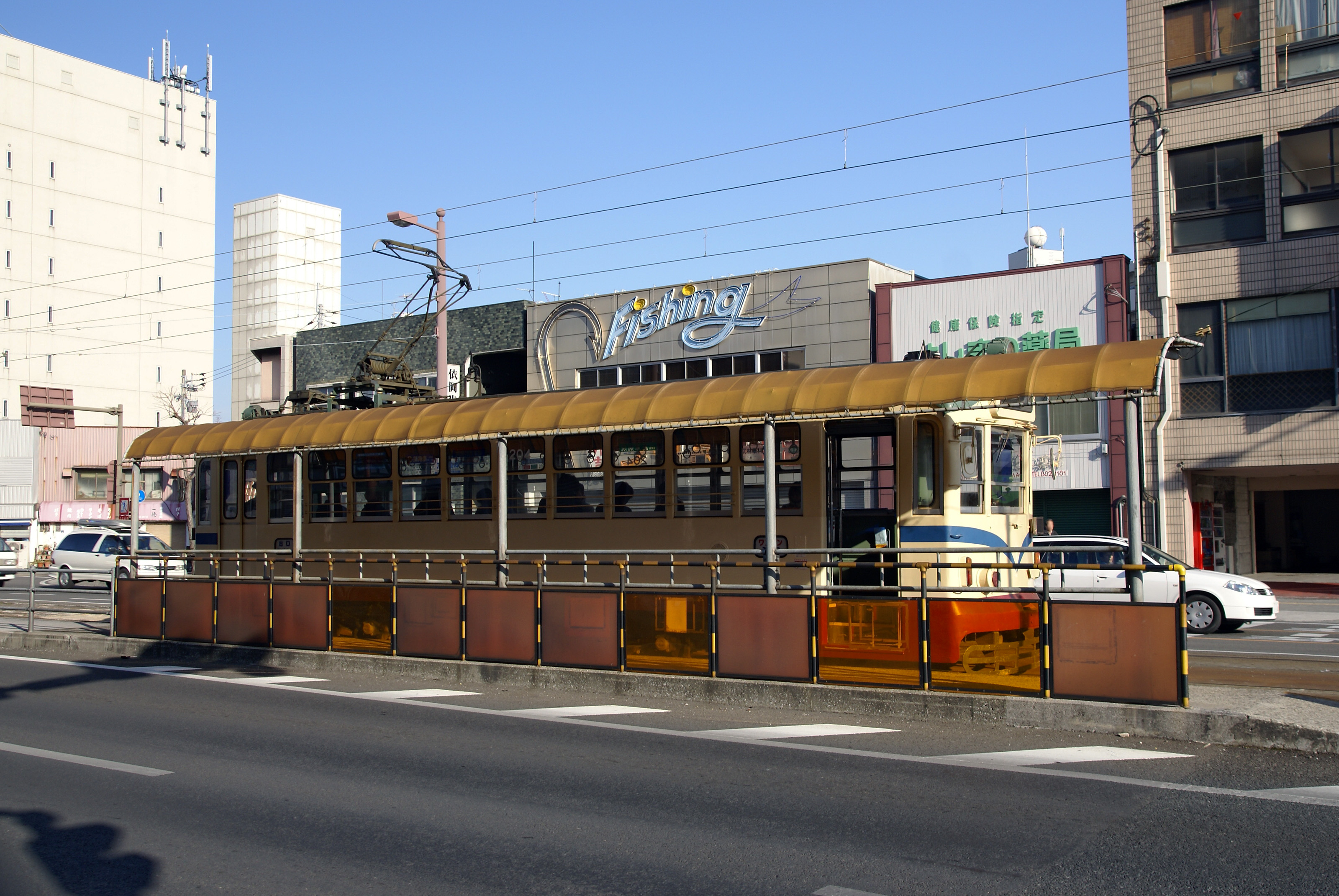 Saenbacho Station in Kochi, Kochi prefecture, Japan